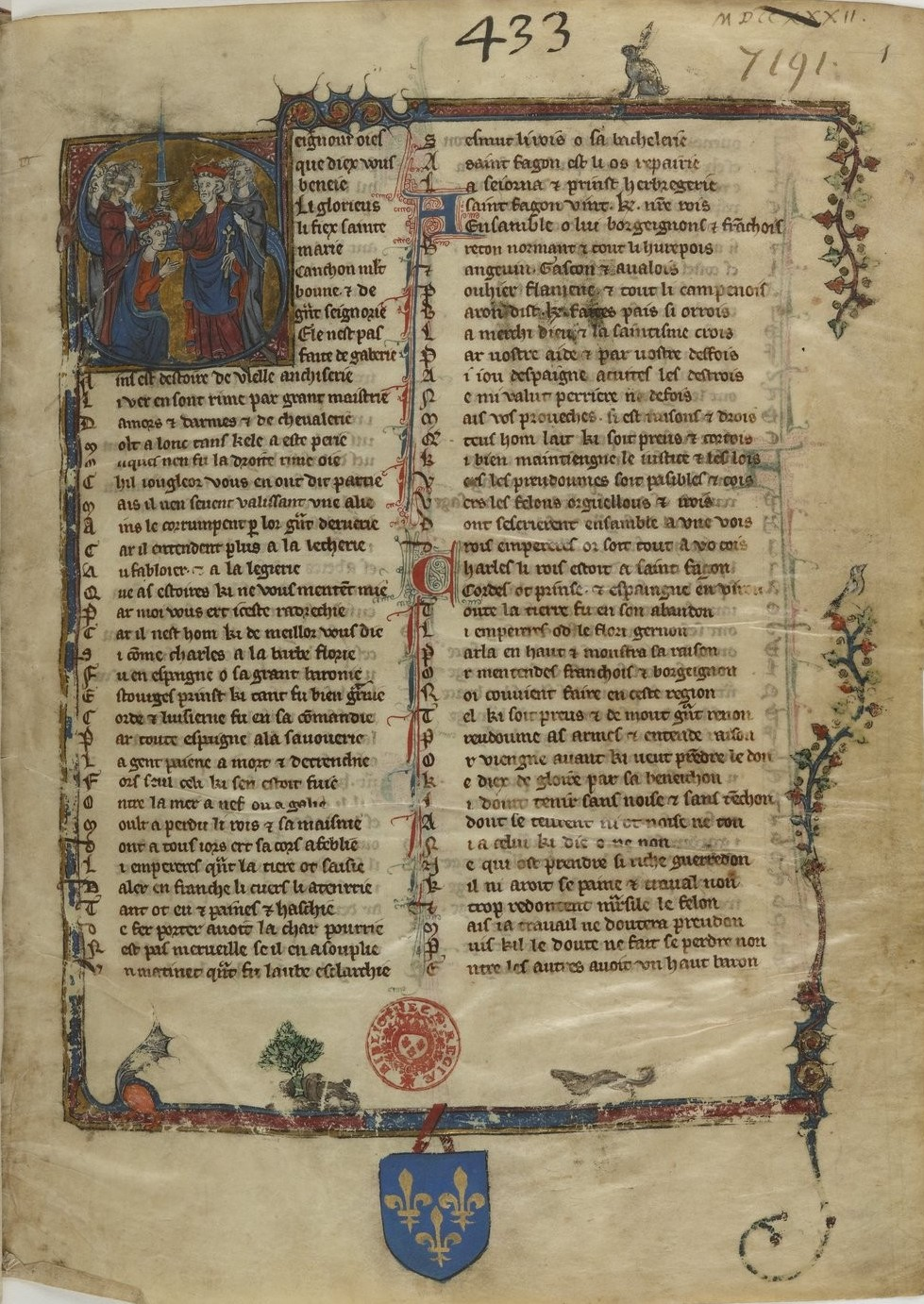 First page of the chanson Anseïs de Carthage in manuscript fr. 793 of the Bibliothèque Nationale de France, dated 1280–1300